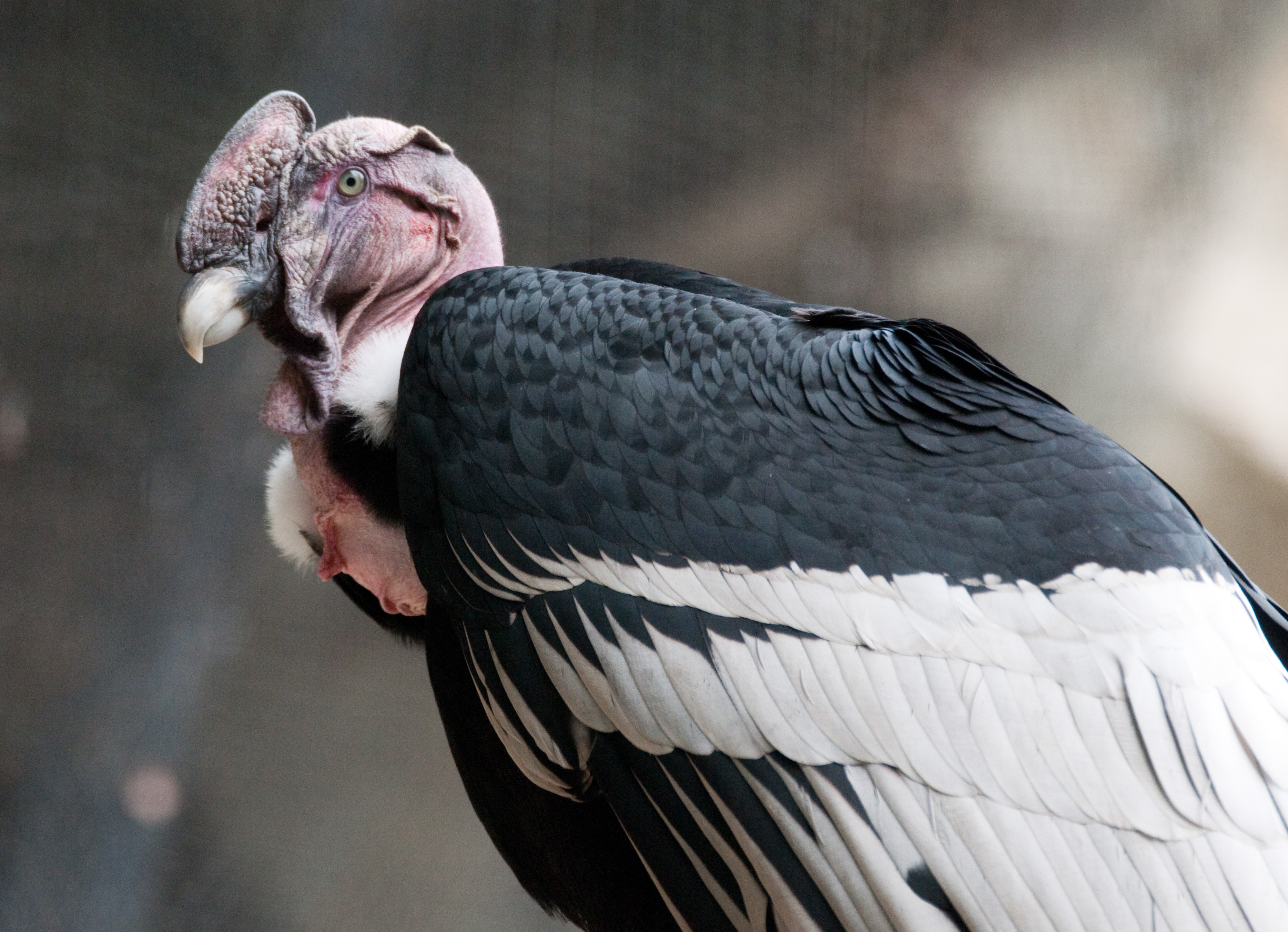 A male Andean Condor at Fort Worth Zoo, Texas, USA.